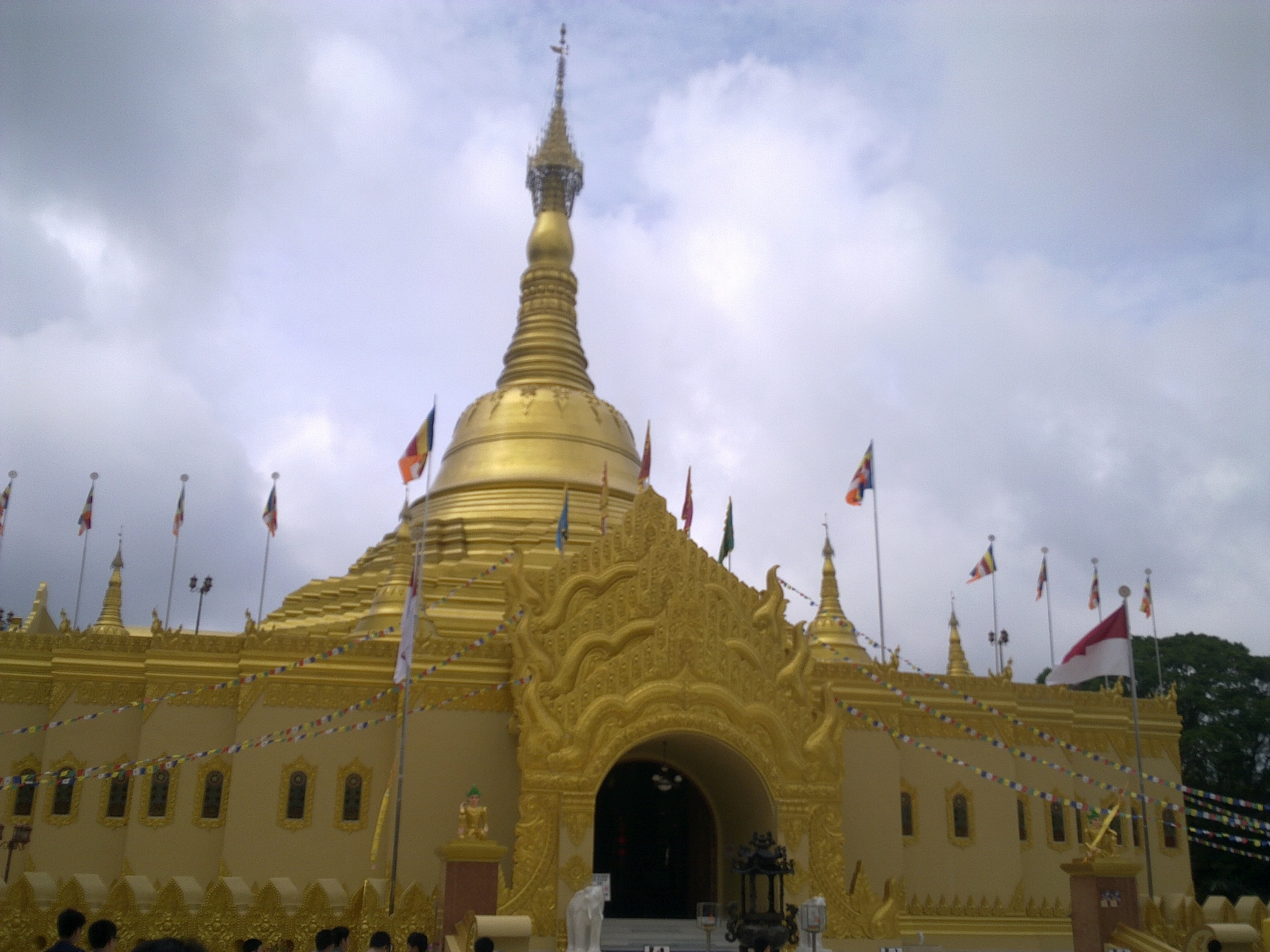 Taman Alam Lumbini, Berastagi, Indonesia.